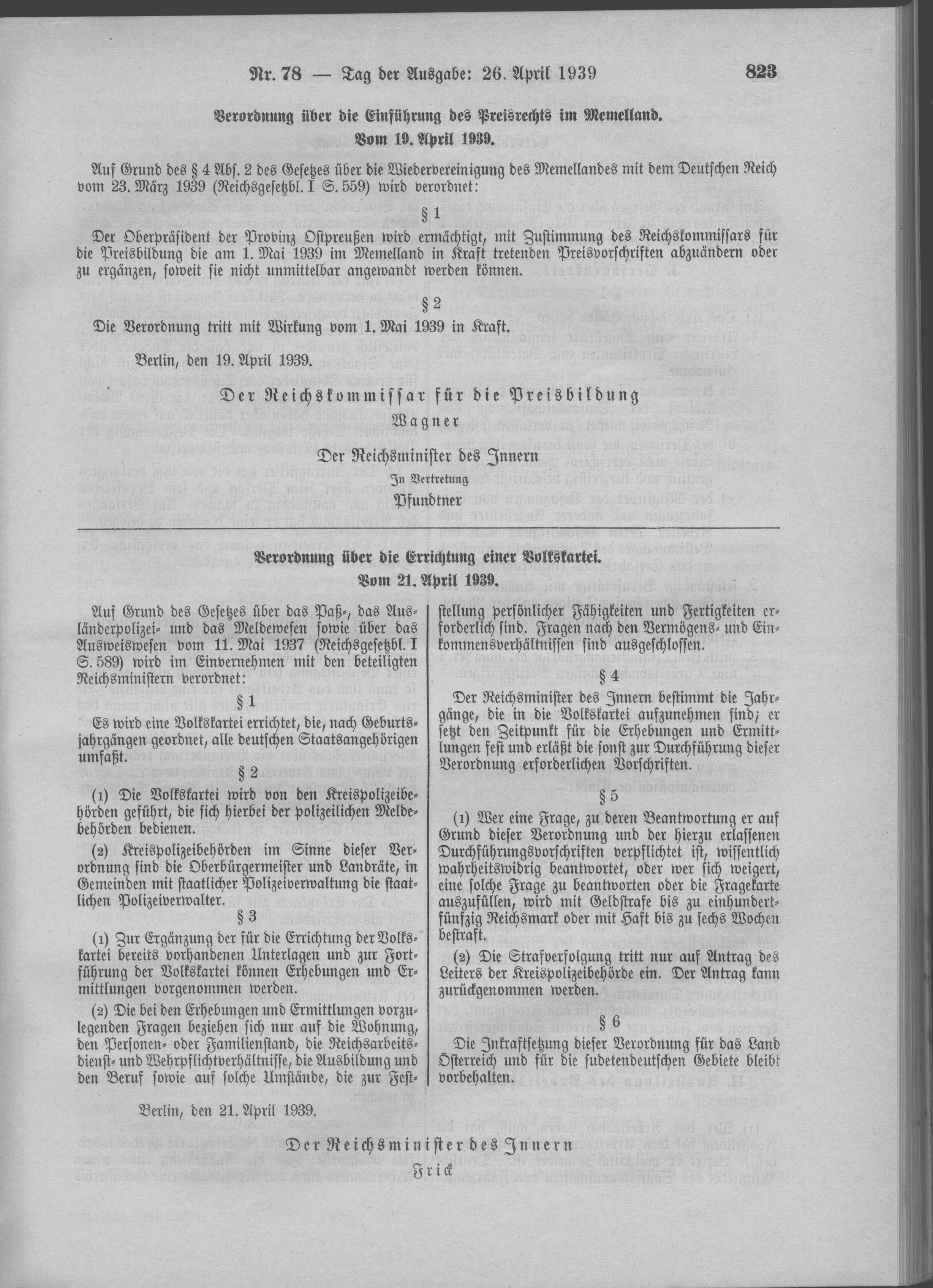 Scan from the Imperial Law Gazette of Germany, 1939, part 1